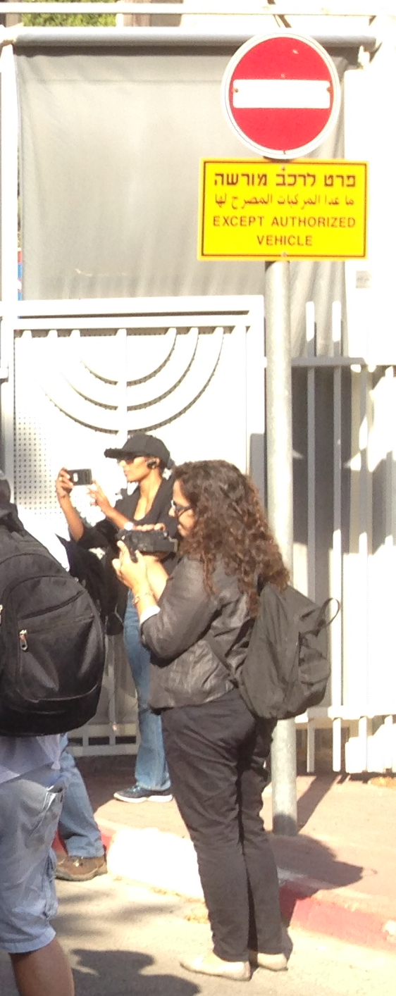 Limor Pinhasov[1] is filming the Disabled Israelis are blocking the entrance to the Prime Minister's Residence in Jerusalem in their battle for equalizing the disability pension to the minimum wage. In October 2017, a full disability pension was 2,342 ILS. The minimum wage in this month was 5,000 ILS, and in December 2017 it increased to 5,300 ILS per month.